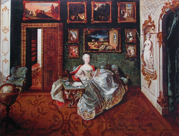 Luise Dorothea of Saxe-Meiningen, duchess of Saxe-Gotha-Altenbur